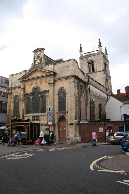 St Swithin's Church from the East. One of Worcester's eight ancient parish churches, but completely rebuilt in the 1730s. It is first mentioned in a written record in 1126. Taken from the junction of The Shambles, St. Swithin's Street, Mealcheapen Street, and Trinity Street.